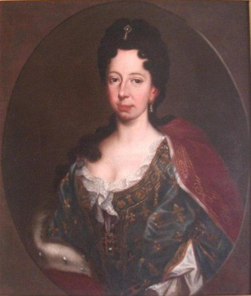 Queen Anna Maria of Sardinia (1669-1728) wearing her native French Fleur de lis and the Savoyard knot on her gown.